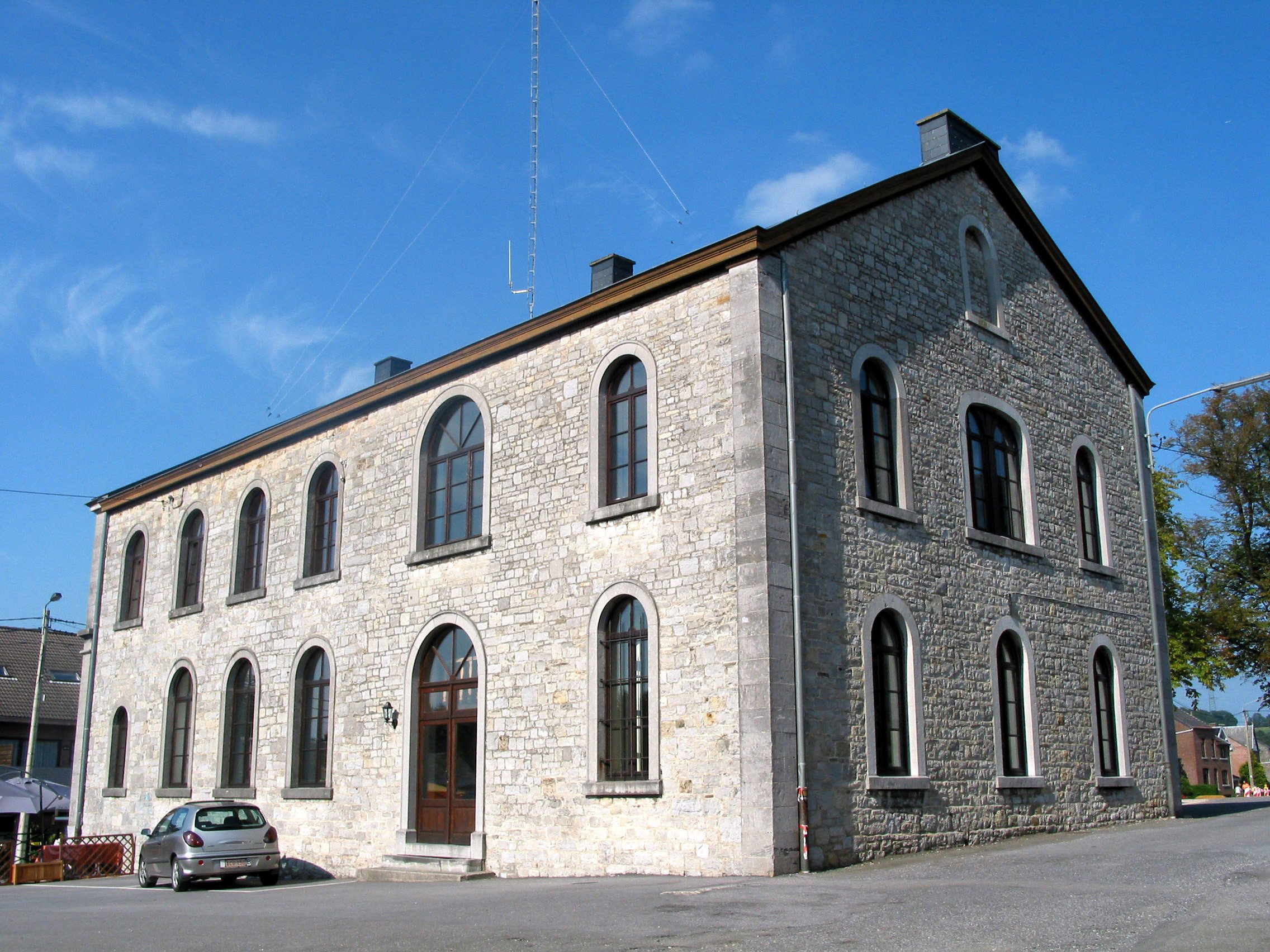 Ferrières (Belgium), the communal house, the primary school and the post office (XIXth century).